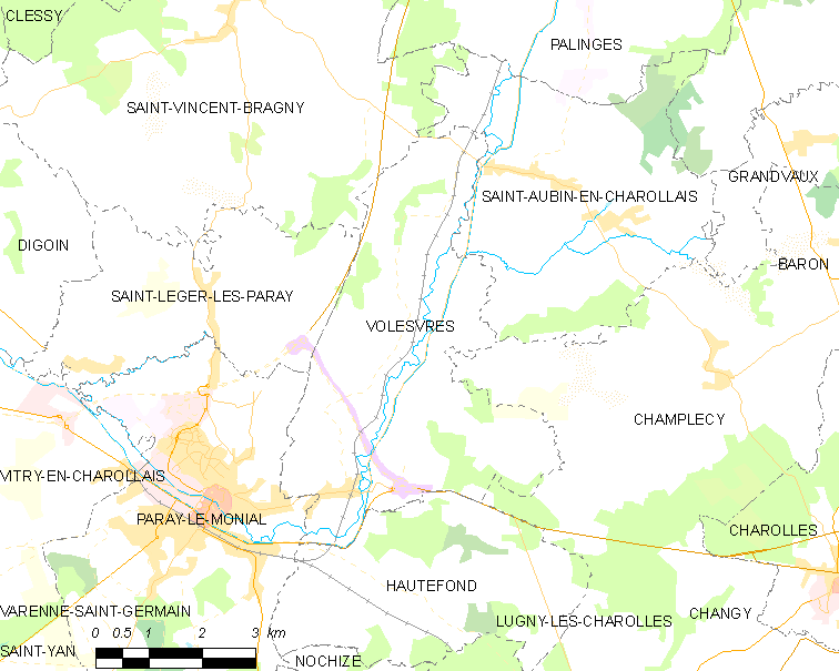 Map of French municipality